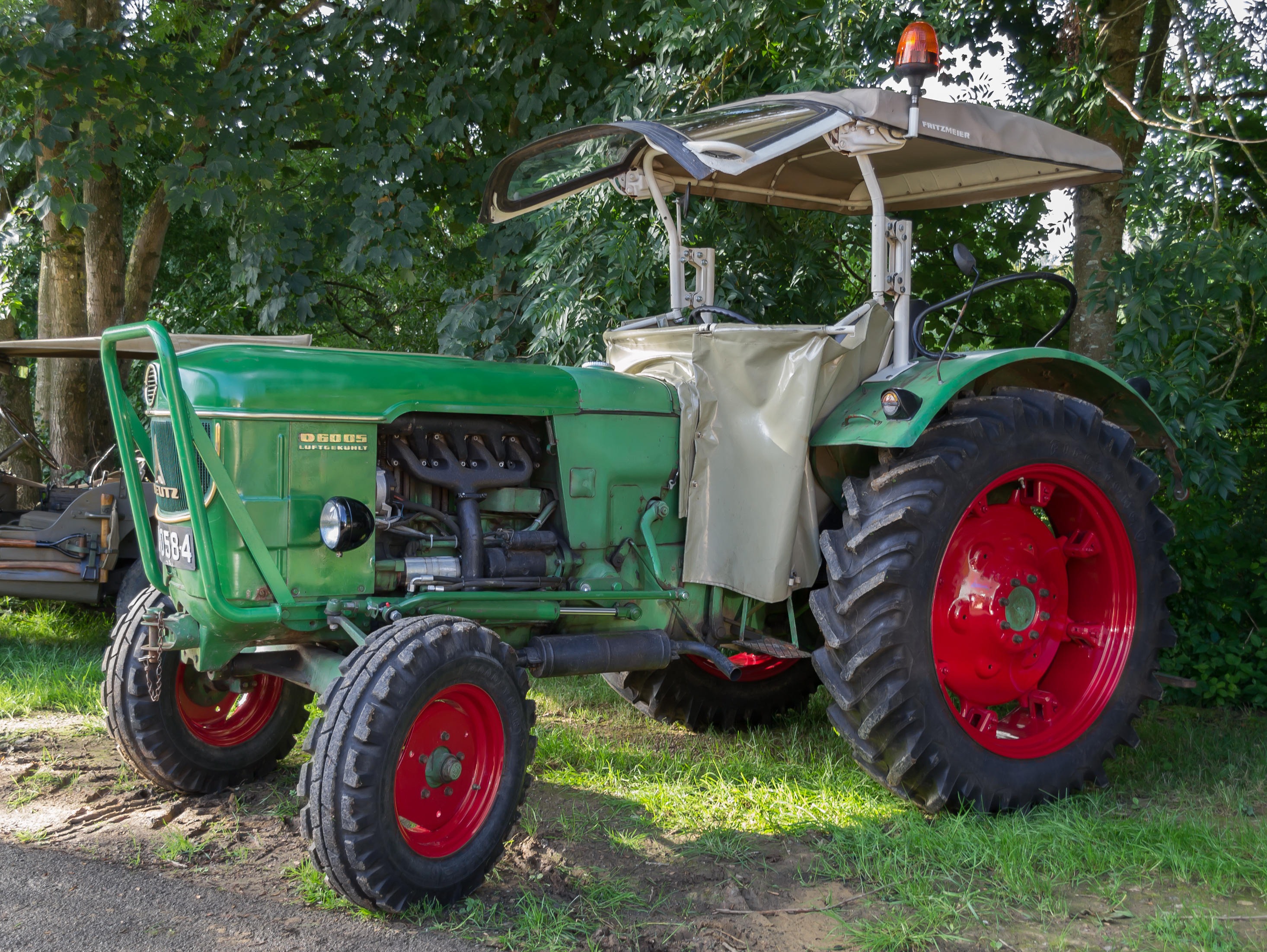 Deutz D 6005 at a tractor meeting in Clemency, Luxembourg